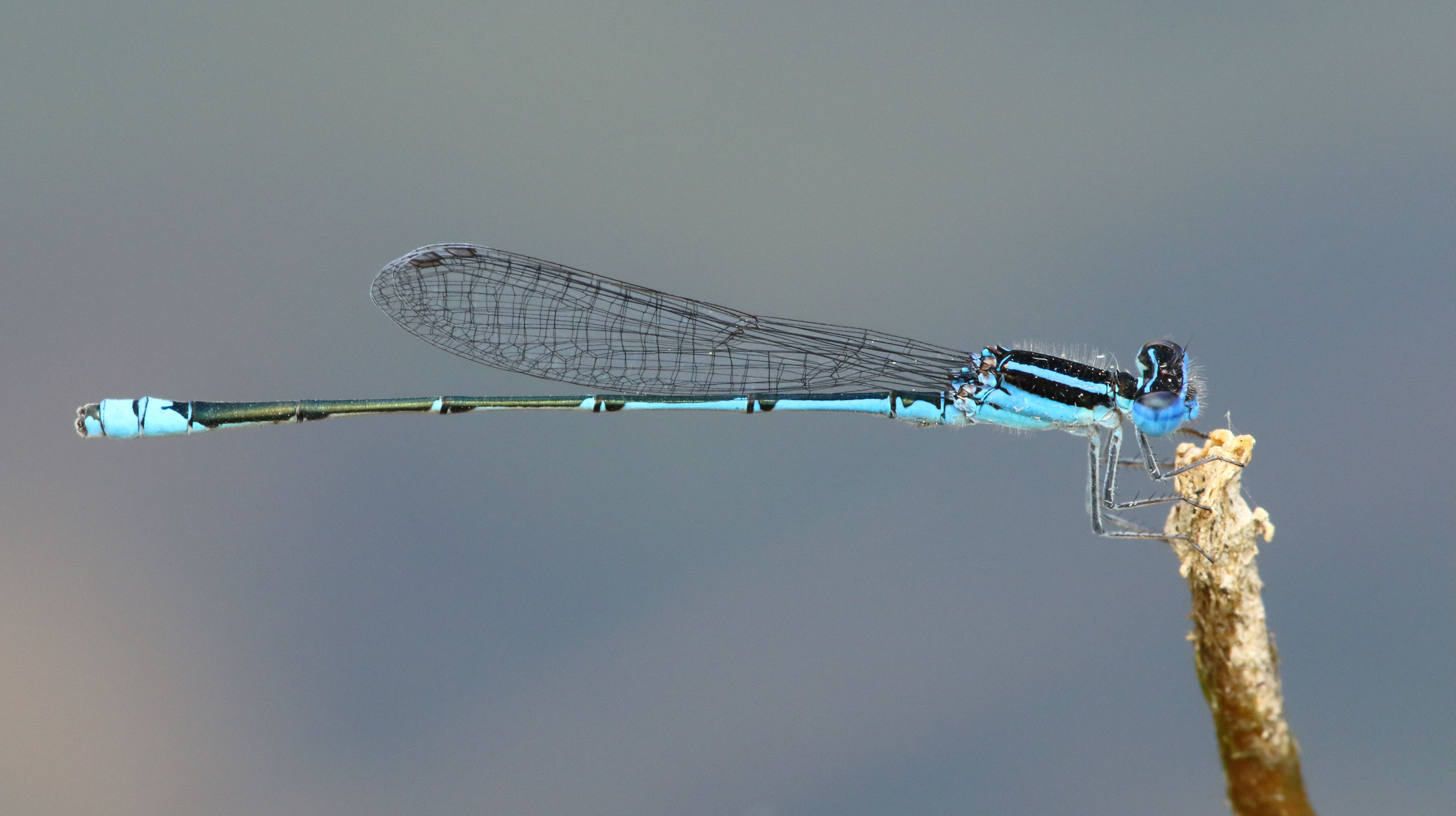 Male Azuragrion nigridorsum, sailing bluet. Ngwenya Lodge, Mpumalanga, South Africa. OdonataMAP record no. 24541